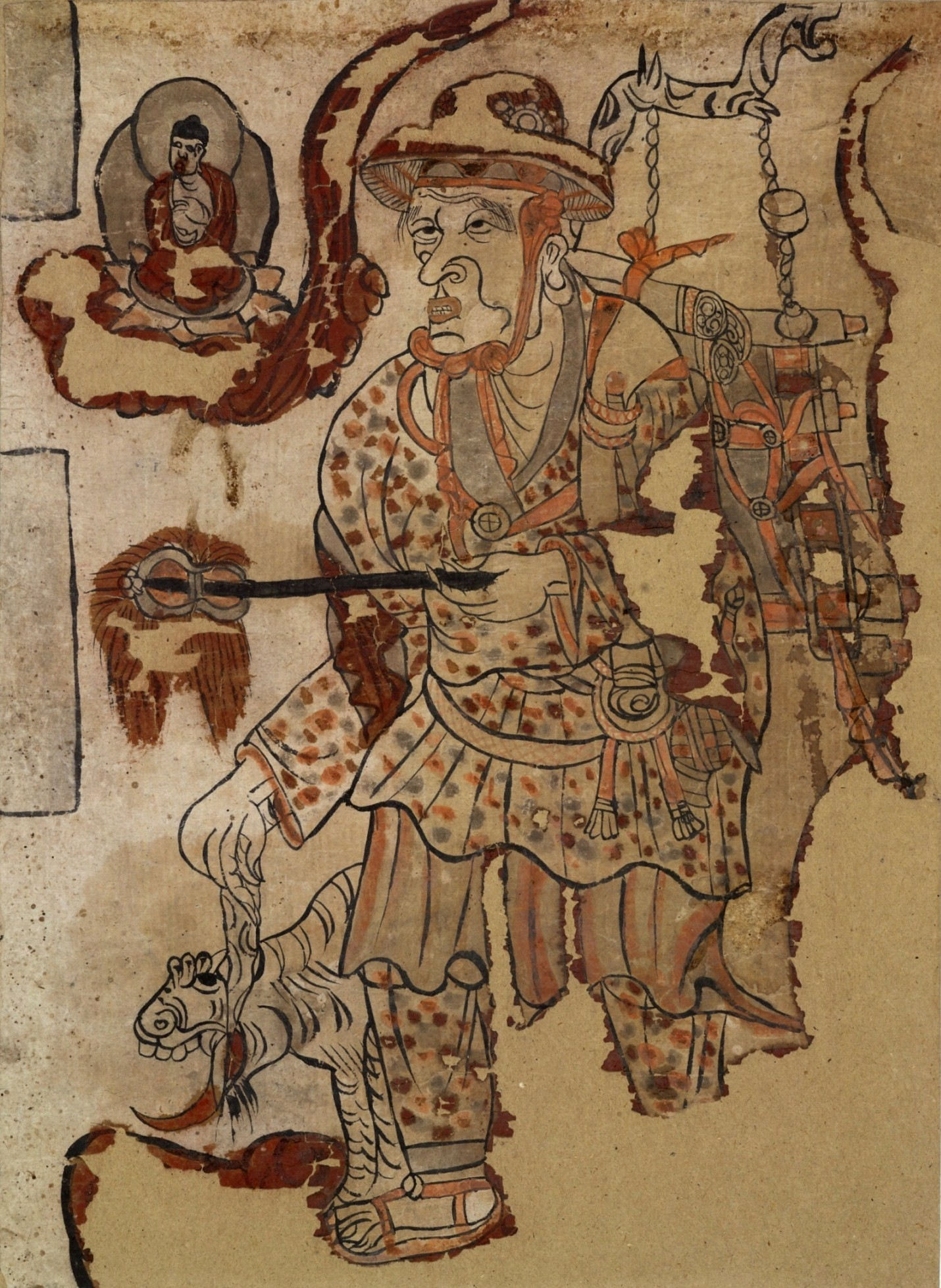 Xuan Zang, Dunhuang cave, 9th century.